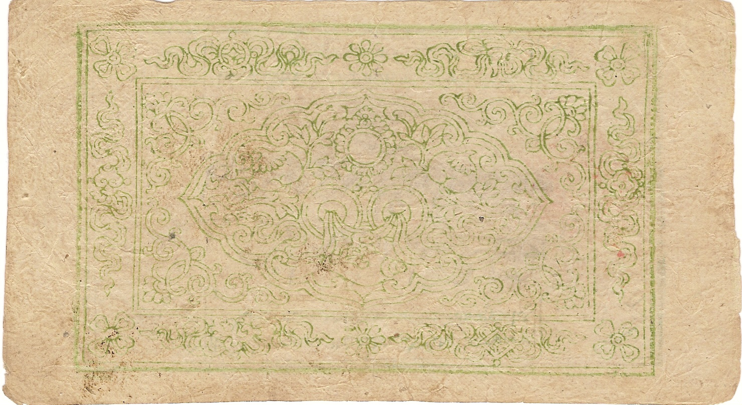 Tibetan 5 Tam banknote, dated 1658 (= AD 1912), serial number 35358 (backside)